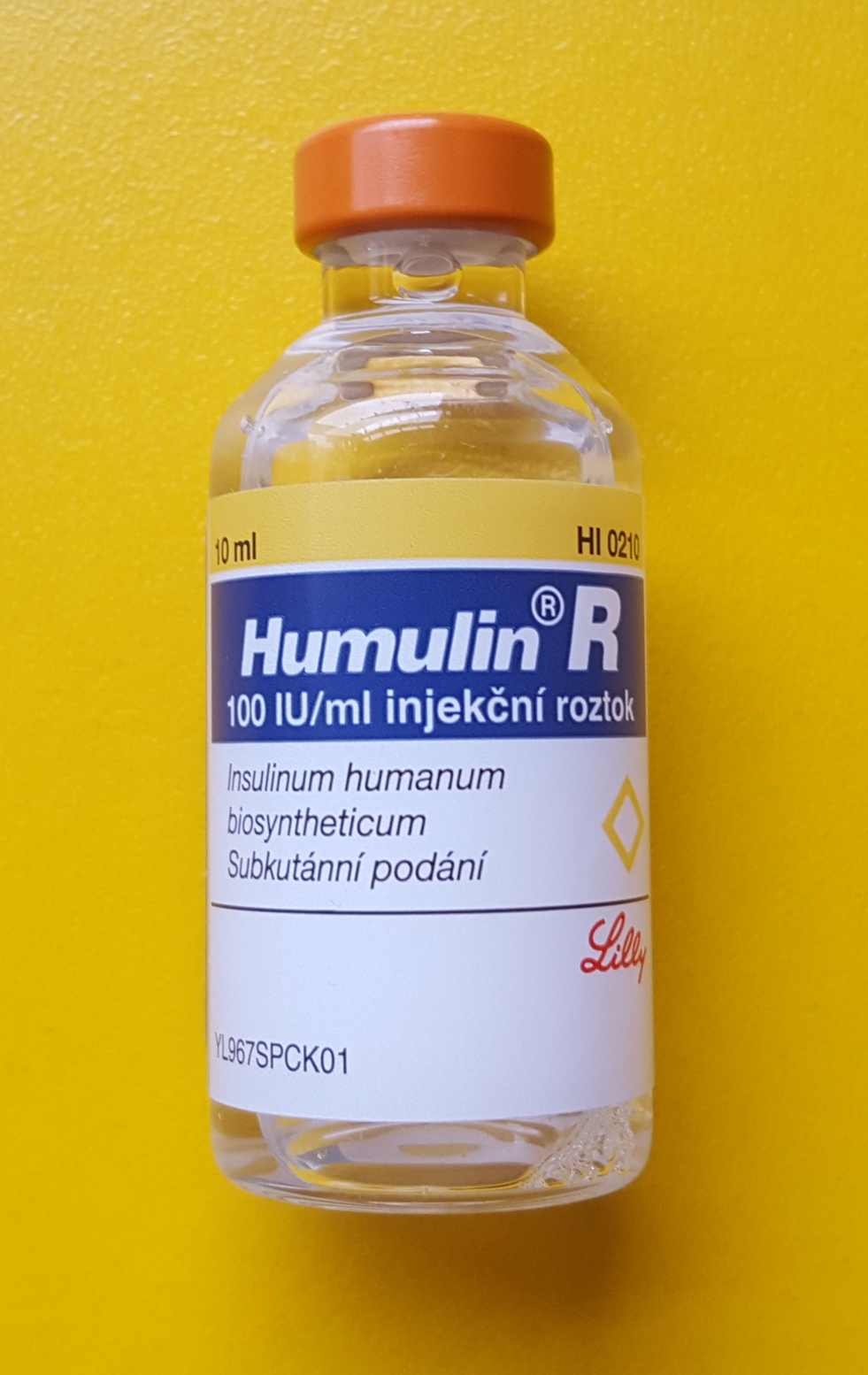 human insulin 100IU/ml vial